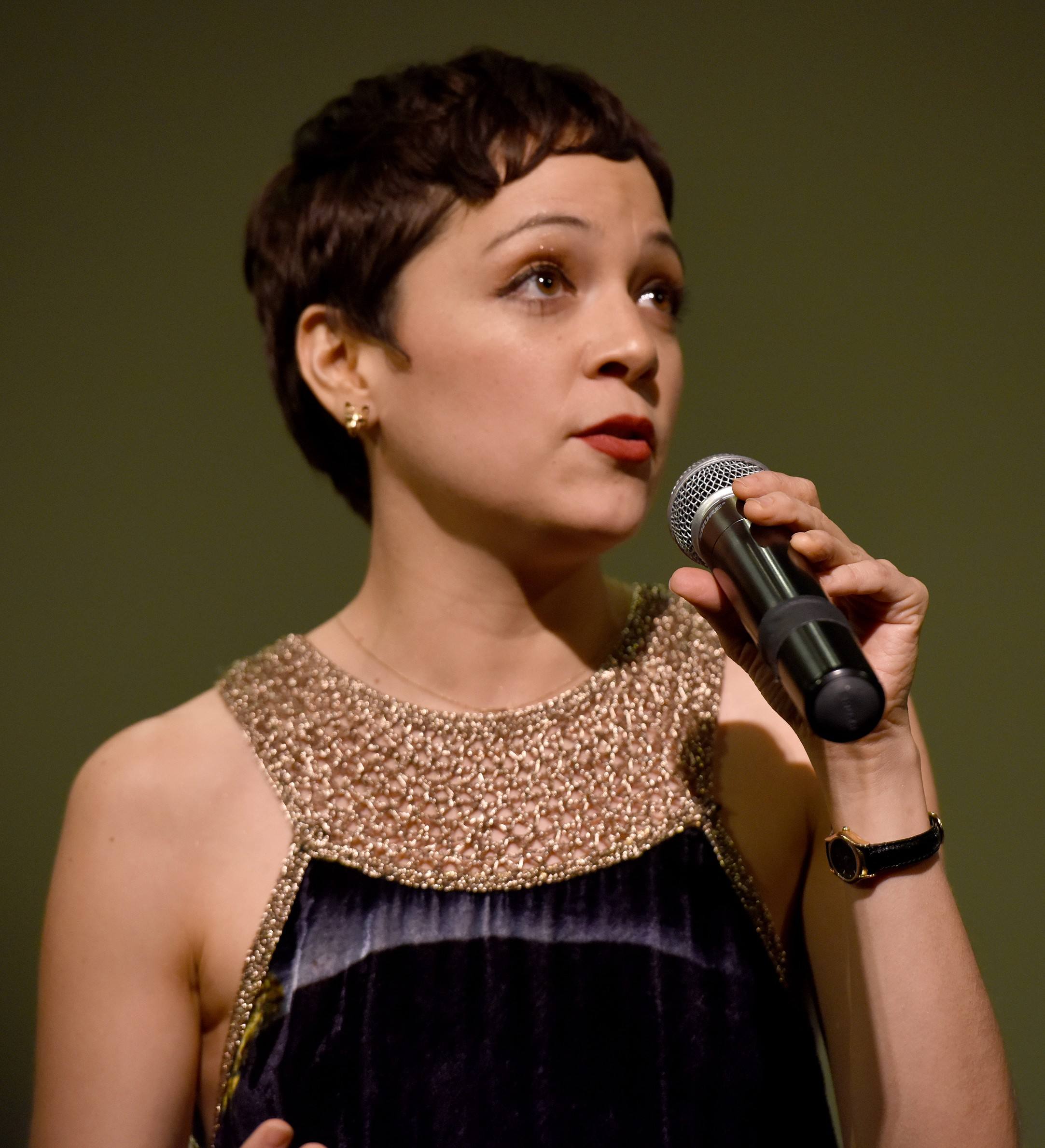 Natalia Lafourcade performing in 2014